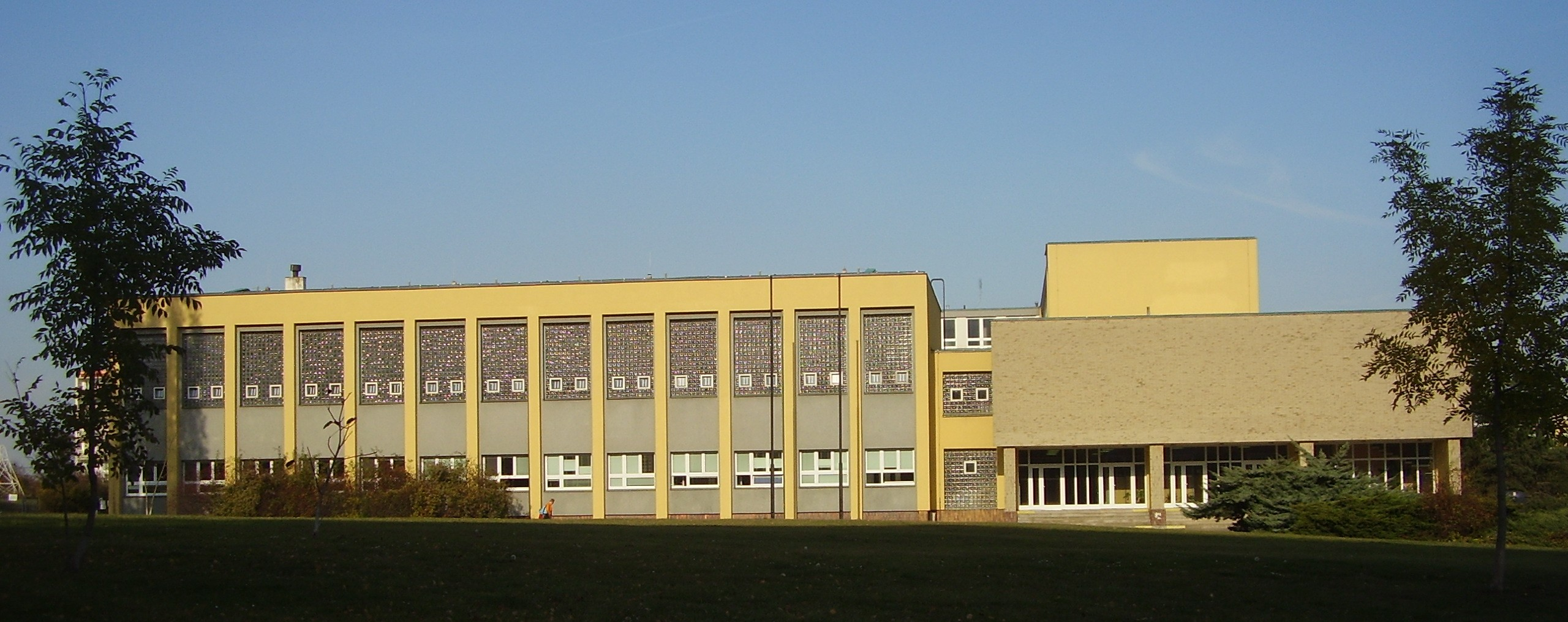 Panorama image of Gymnazium Arabská, Prague 6, Vokovice